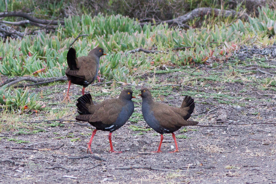 Black-tailed Nativehen Tribonyx ventralis, between Nhill and Ouyen, Victoria, Australia